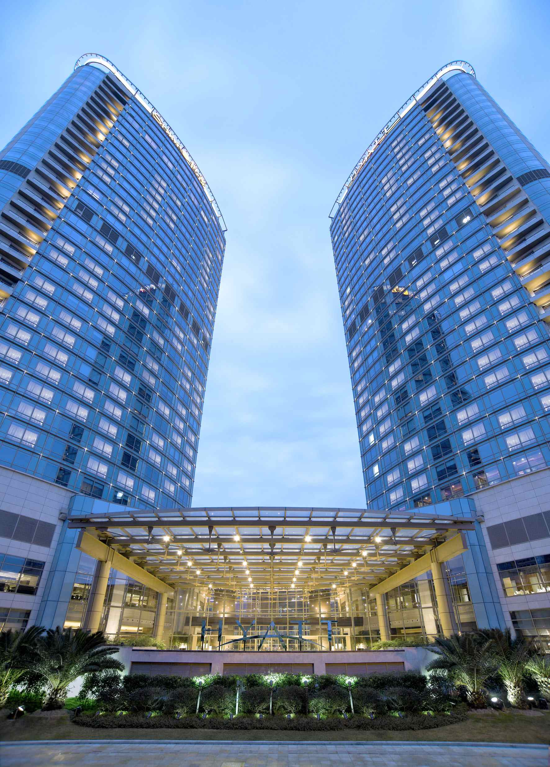 Hyatt